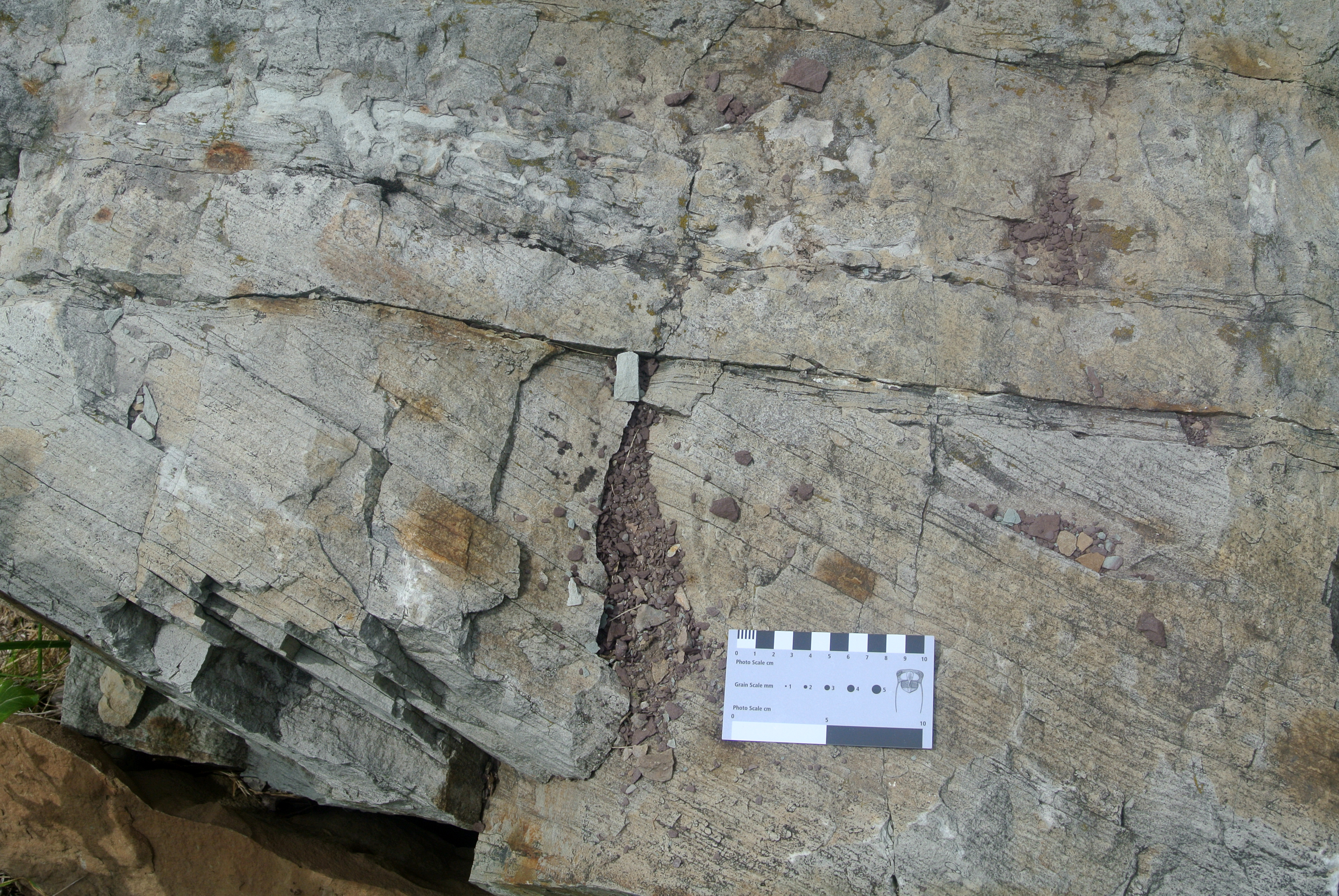 Cross-beds in the Grimsby Formation (Silurian) exposed in Niagara Gorge, New York.